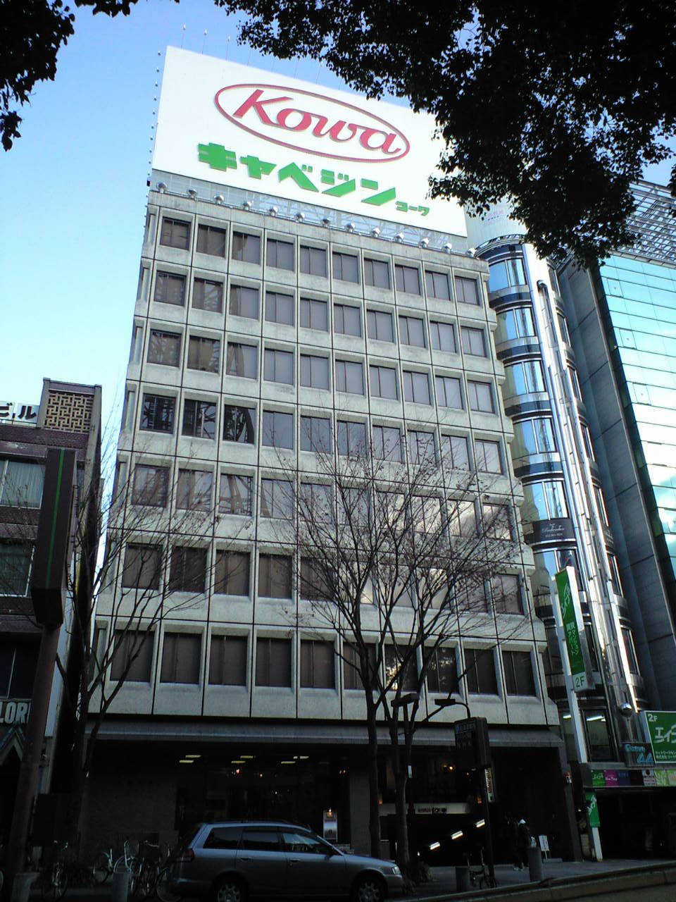 Hisaya Building - In the radio station, RADIO-i(Aichi International Broadcasting)